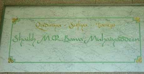 Detail from exterior of Mosque of Shaikh M. R. Bawa Muhaiyaddeen in Philadelphia, Pennsylvania.